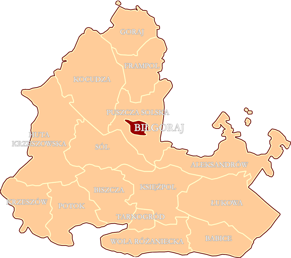 Map of city of Biłgoraj (1933) in Biłgoraj County, Lublin Voivodeship